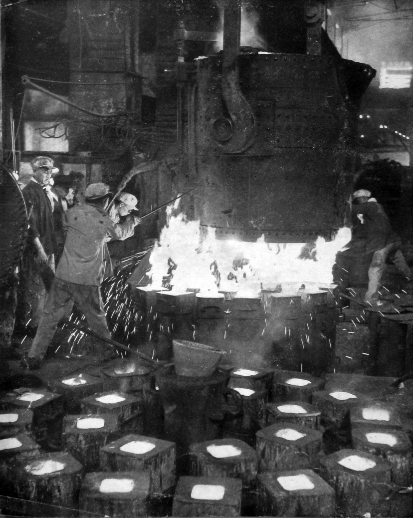 To outperform the steelmaking plan.